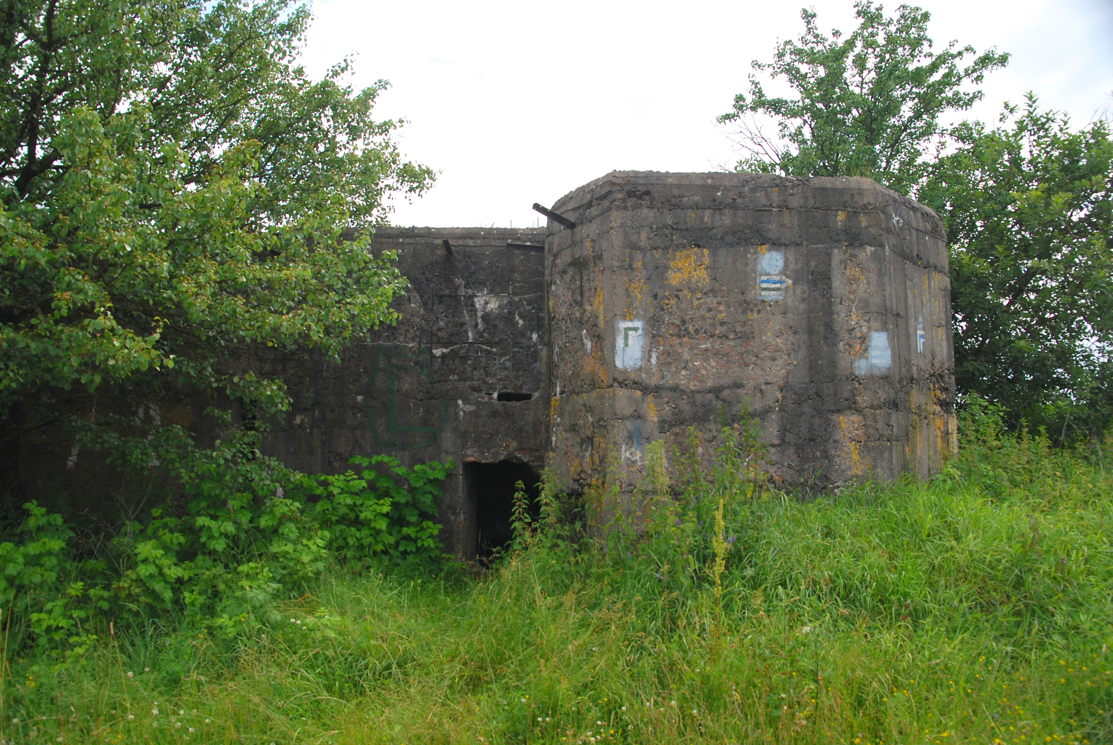 This photo from Podlaskie Voievodeship was taken during Polish Wikiexpedition 2009 set up by Wikimedia Polska Association. The making of this document was supported by Wikimedia Polska. Bunkier w okolicy Olendry Podlasie.jpg